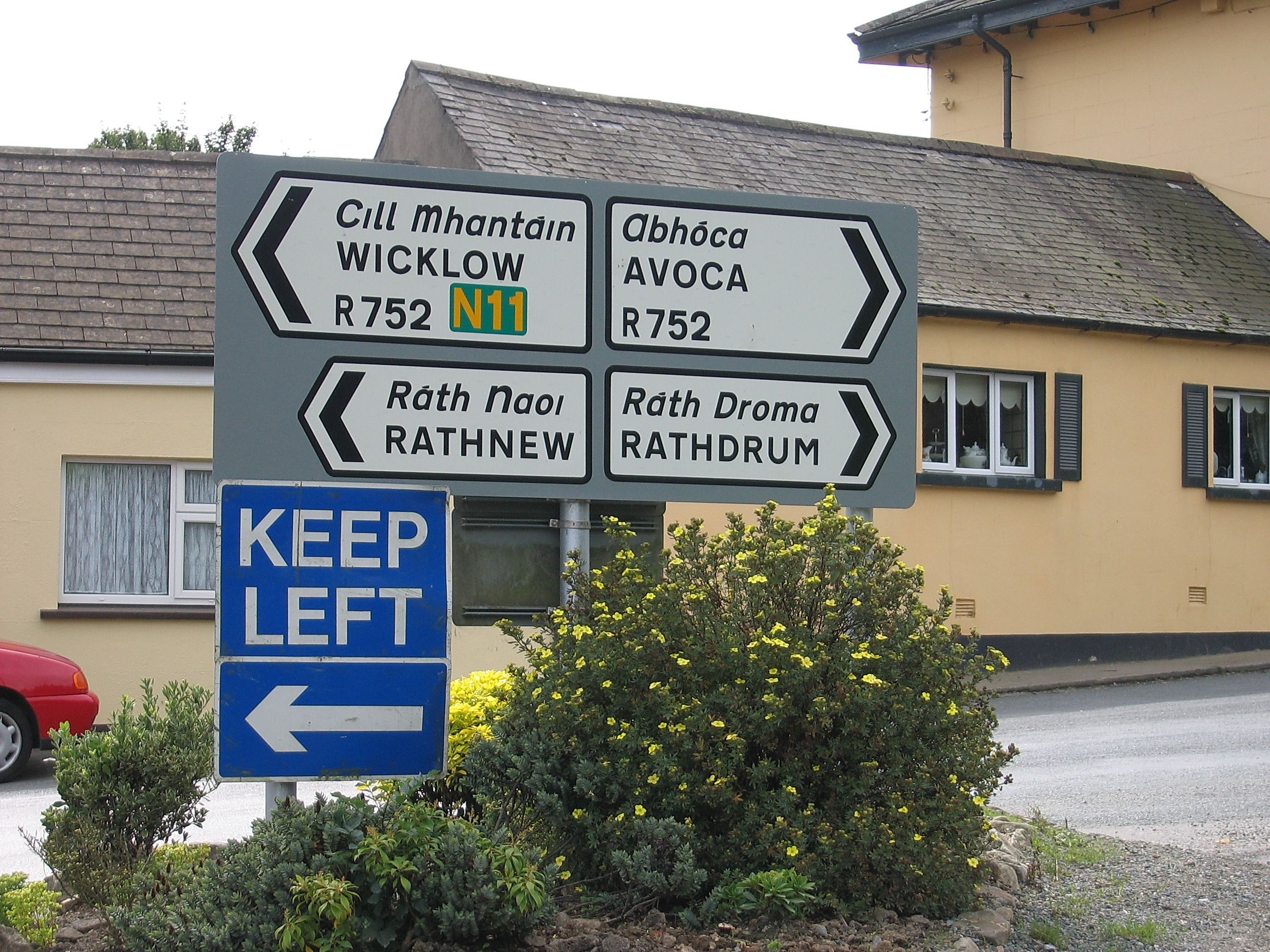 Direction sign in Glenealy Village Since this photo was taken this entire traffic island has been demolished! Whether by accident or design, I can't say. (Sarah777 18:03, 5 November 2006 (UTC)) Update: it was done by the Council who have replaced this island with a "STOP" sign in a barrel. Progress, eh? (Sarah777 18:40, 22 September 2007 (UTC)) Further Update: The barrel is now gone and this is now a conventional T-junction! Sarah777 (talk) 12:45, 13 September 2008 (UTC)